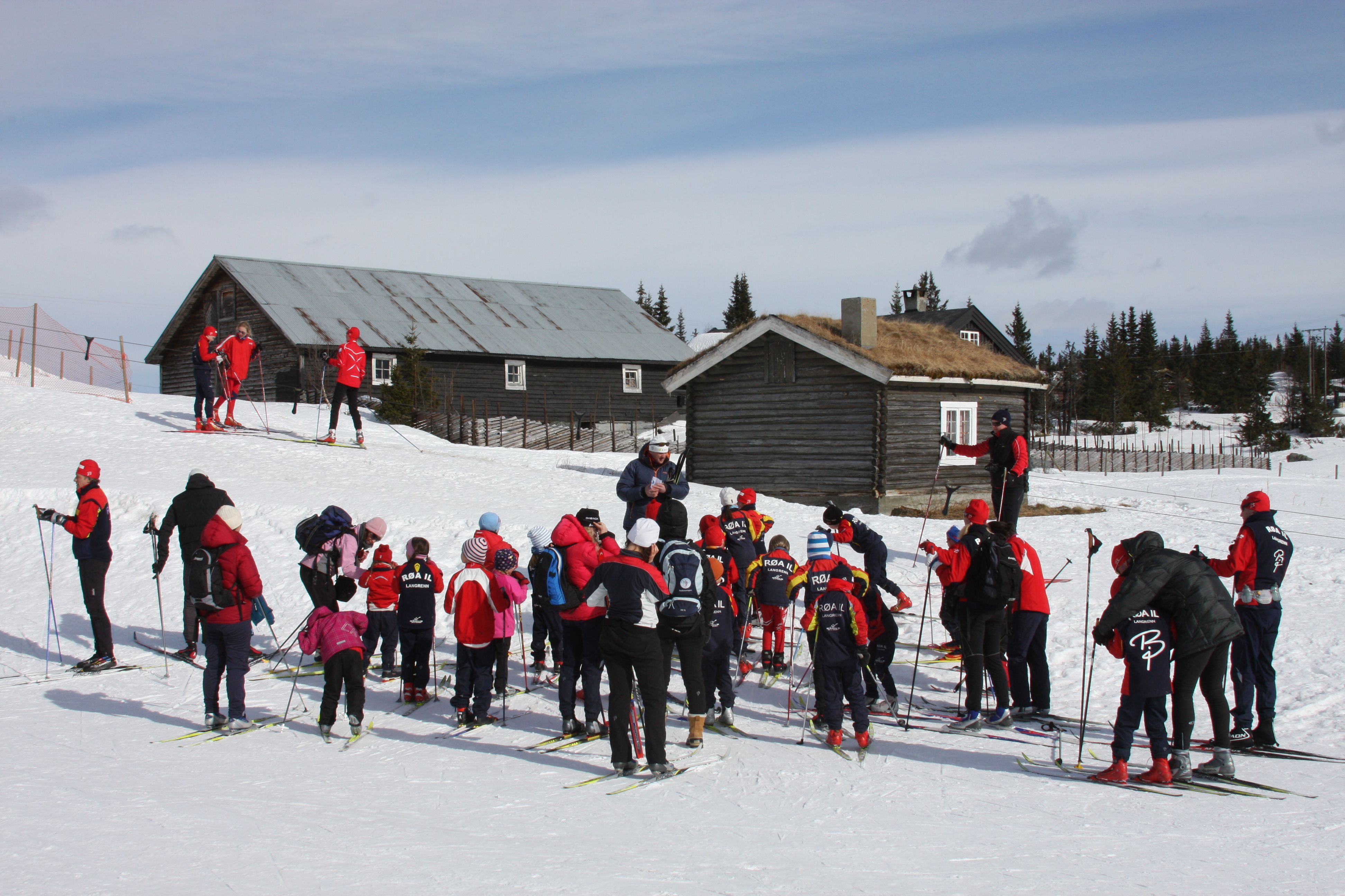 Røa Idrettslag, cross-country training at Austlid, Skeikampen (Gausdal), Norway.